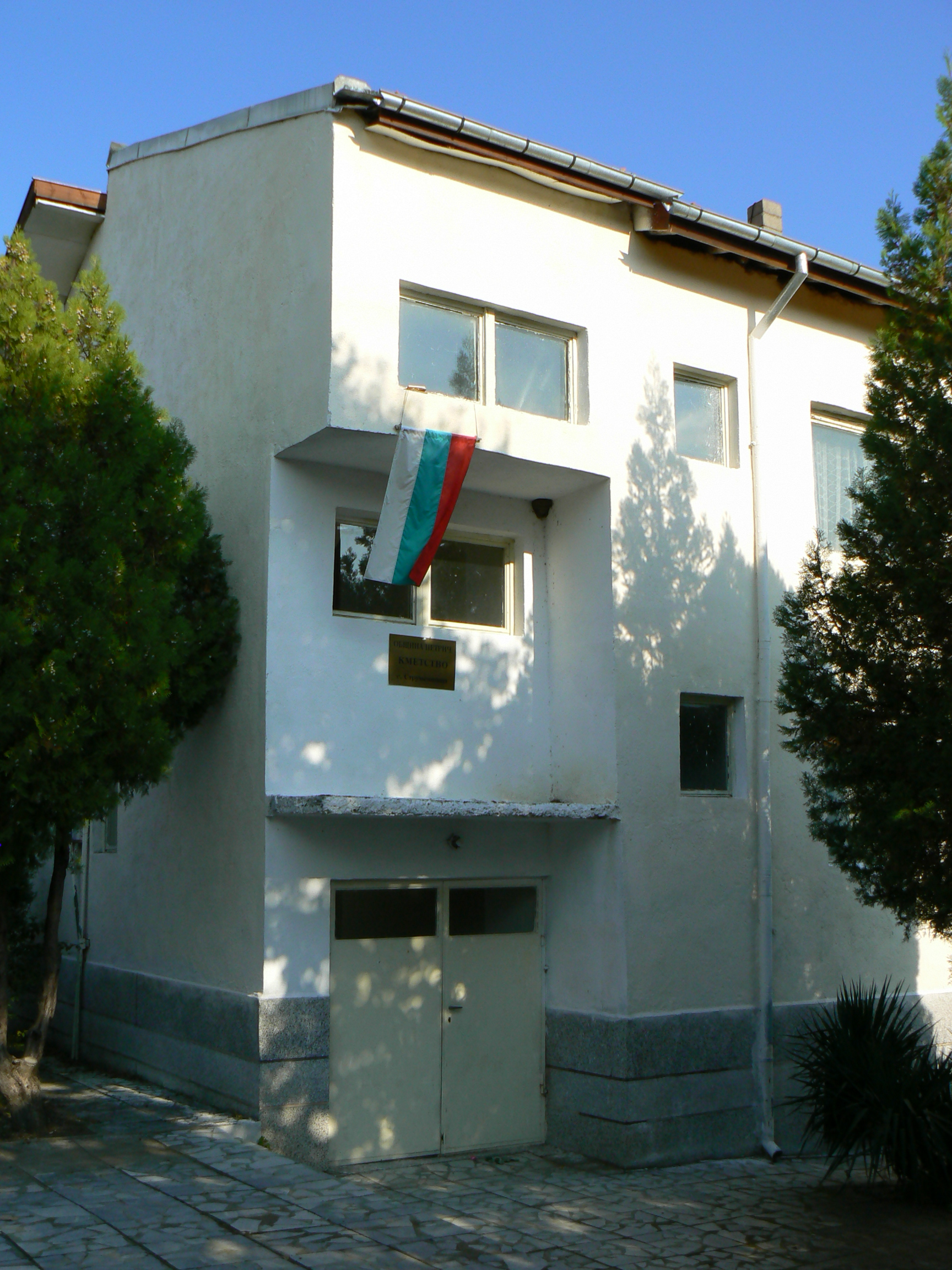 Mayor's office in village Strumeshnitsa, Bulgaria